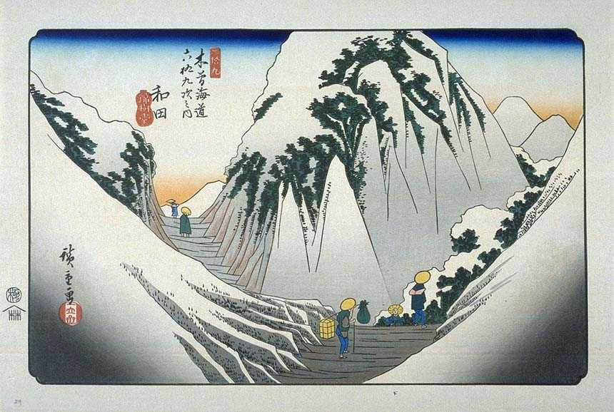 Wada on the Kisokaido, ukiyo-e prints by Hiroshige